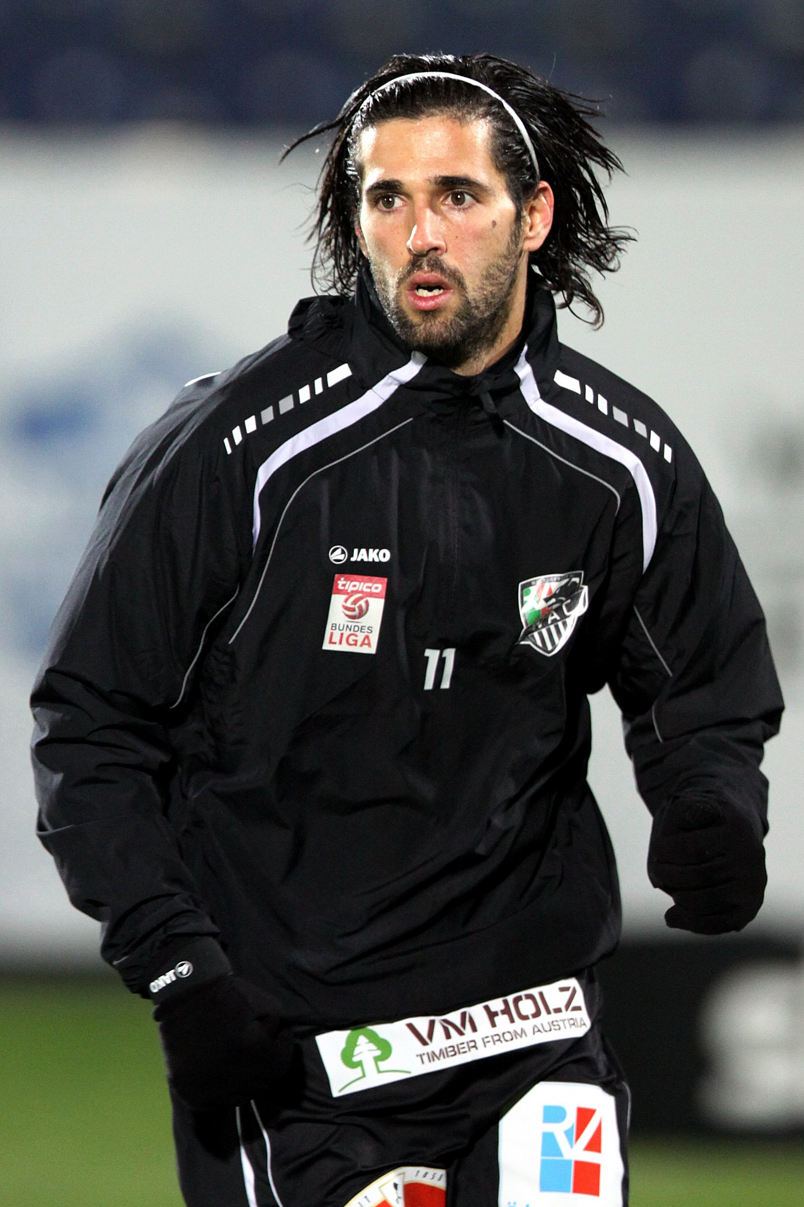 2014–15 Austrian Football Bundesliga: SC Wiener Neustadt vs. Wolfsberger AC (2:0 / 0:0) at 2014-11-22 in the Stadion Wiener Neustadt. – The photo shows en: (SC Wiener Neustadt/Wolfsberger AC). The making of this work was supported by Wikimedia Austria. For other files made with the support of Wikimedia Austria, please see the category Supported by Wikimedia Österreich.